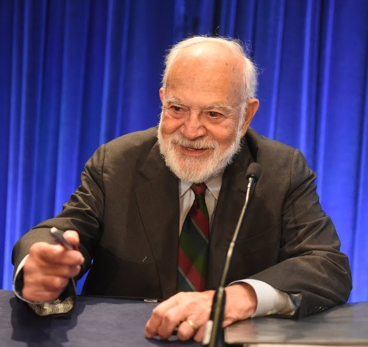 Harry G. Frankfurt Professor Emeritus of Philosophy Princeton University 2017 ACLS Annual Meeting American Council of Learned Societies Baltimore, MD, May 12